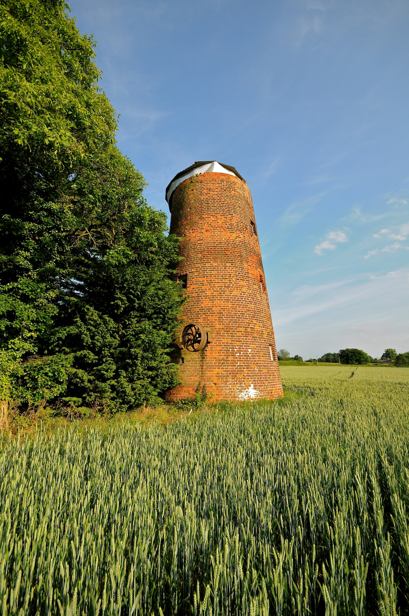 A tower mill known as Tutelina or Clarke's Mill in Great Welnetham, Suffolk, England. It's a Grade II listed building.